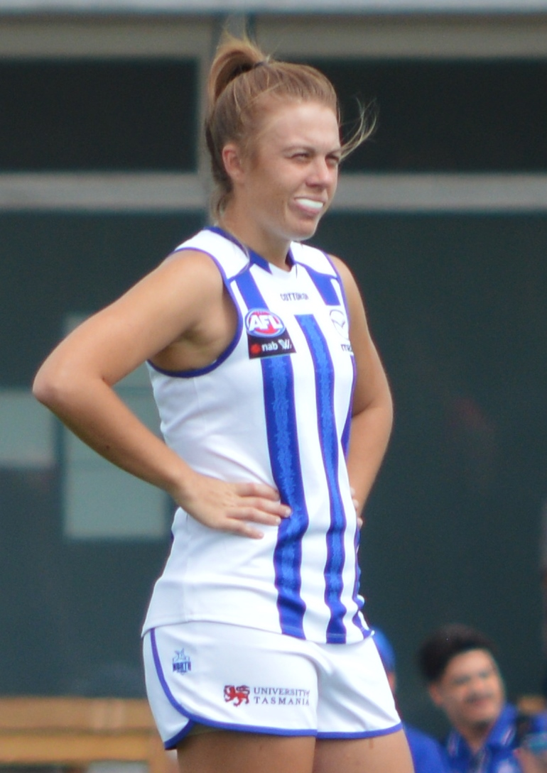 Jamie Stanton with North Melbourne during an AFLW practice match against Melbourne at Casey Fields on 19 January 2019.